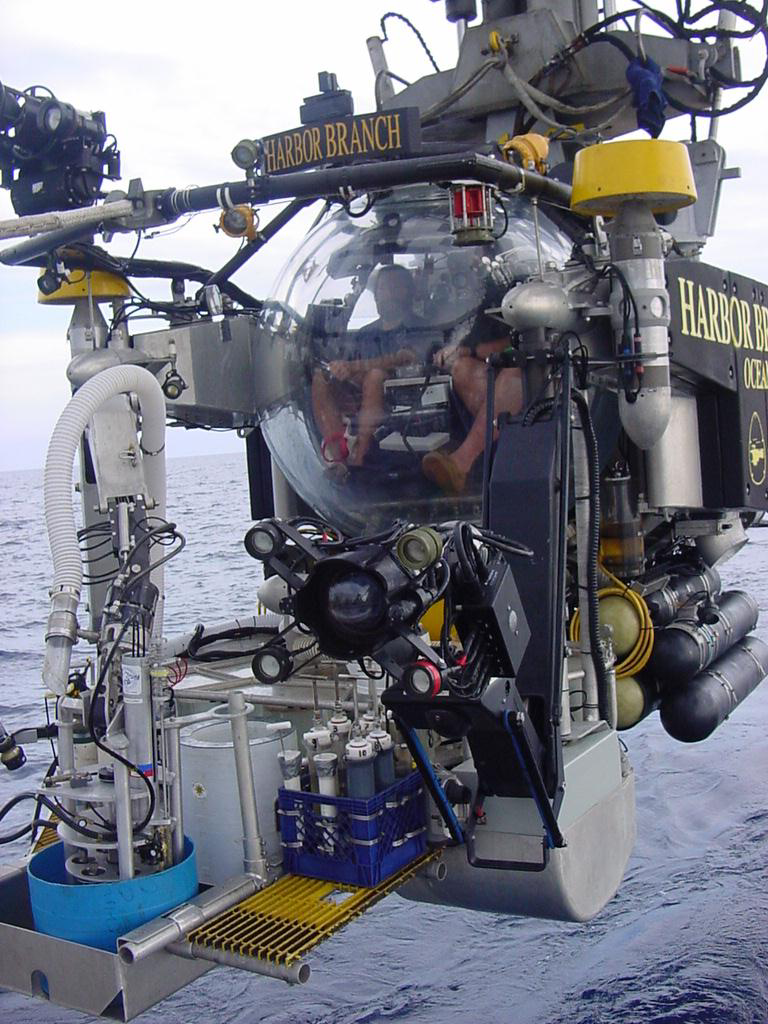 Harbor Branch Oceanographic Institution's Submersible “Johnson SeaLink”